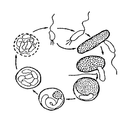 Bdellovibrio Life Cycle.